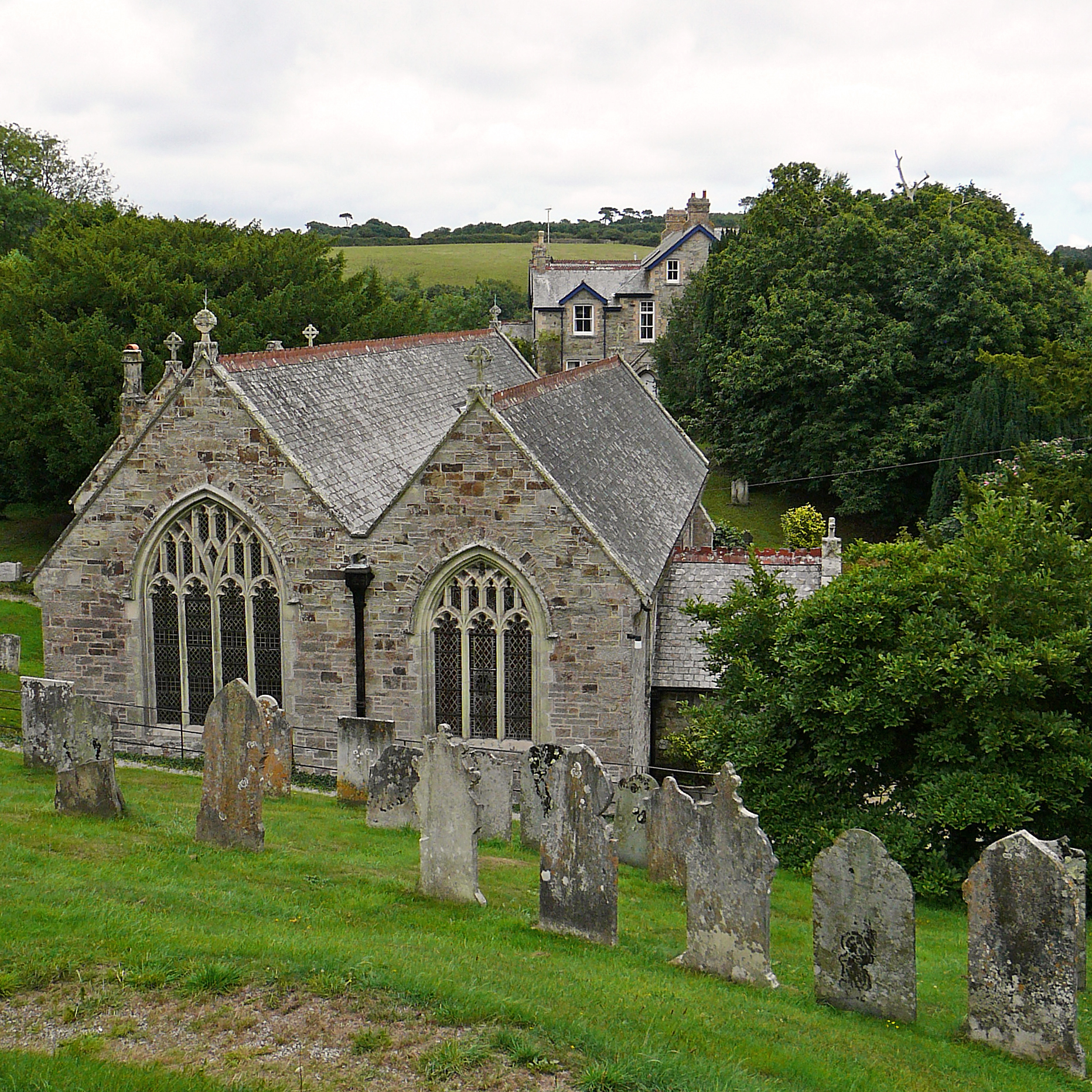 Feock Church